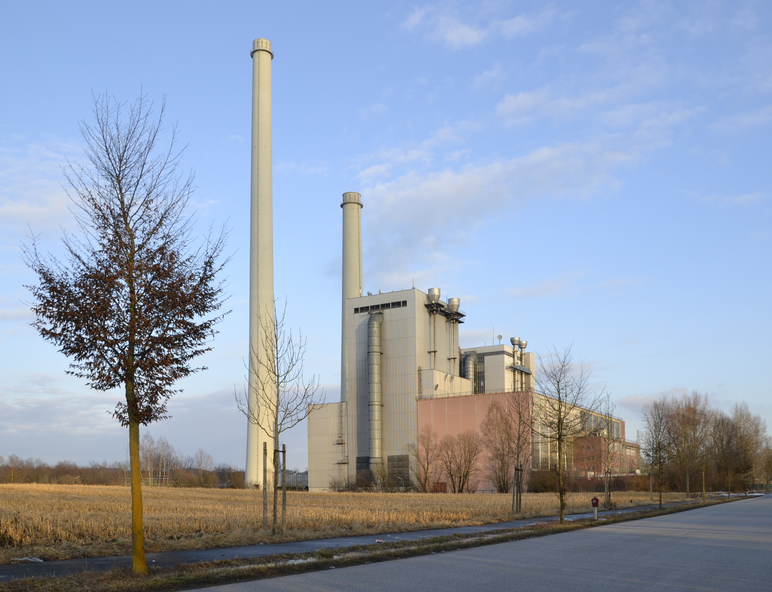 The former oil power plant Pleinting.